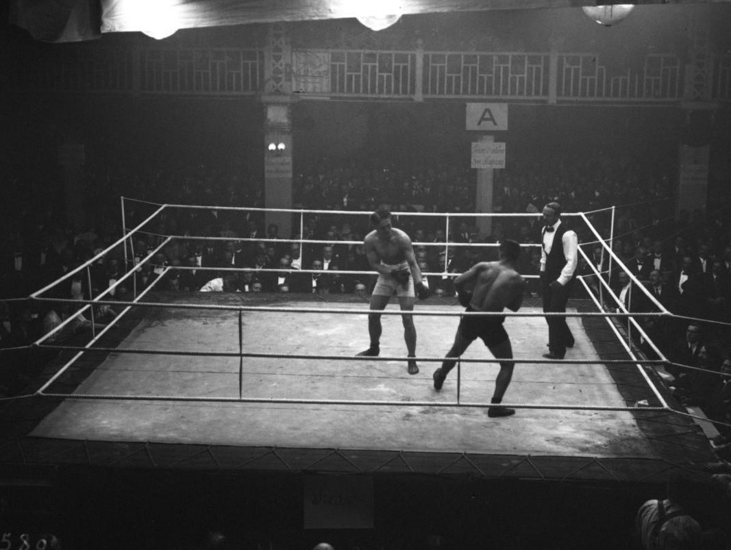 11-10-13, Luna Park, Carpentier-Jeff Smith [boxing]